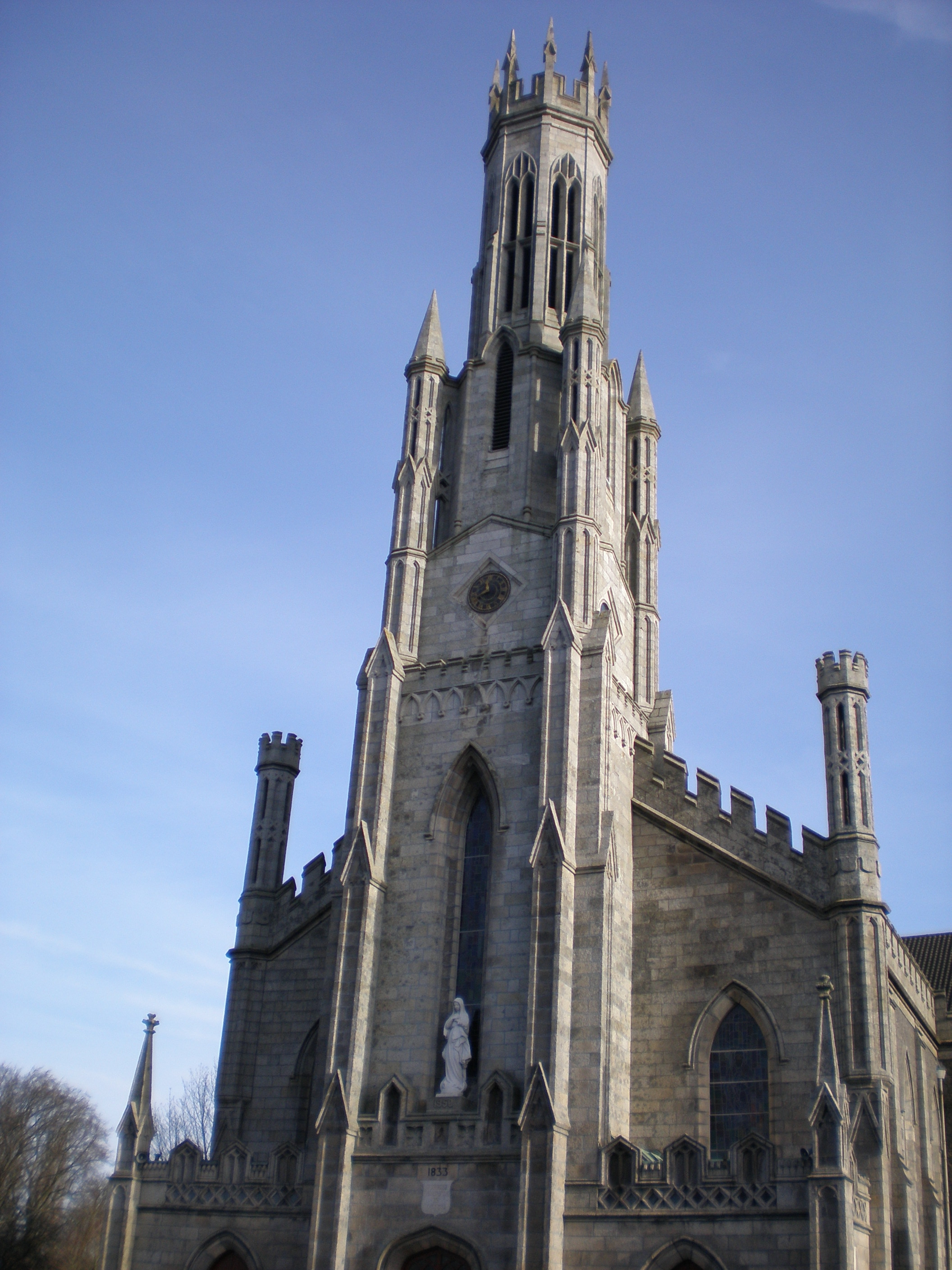 A photograph of Carlow Catholic Cathedral, Dioscese of Kildare and Leighlin, Ireland, taken by myself. As per COM:CRT/Ireland#Freedom of panorama buildings in public places can be photographed and these images used in any way. In this spirit I release all copyright on this photograph.